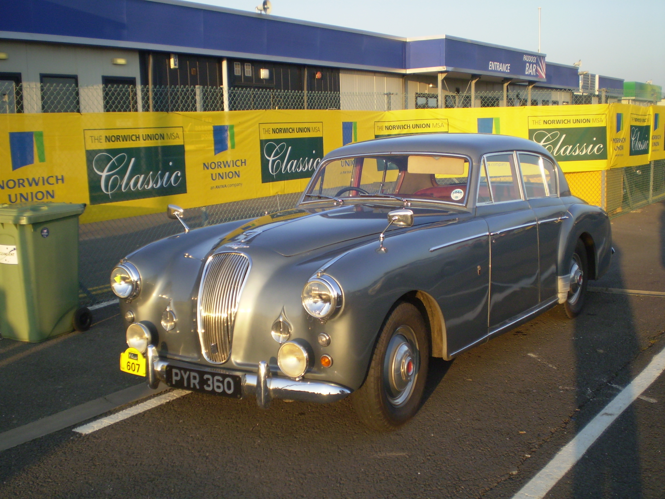 Lagonda 3 litre 1955(DVLA) first registered 24 June 1955, 2922cc